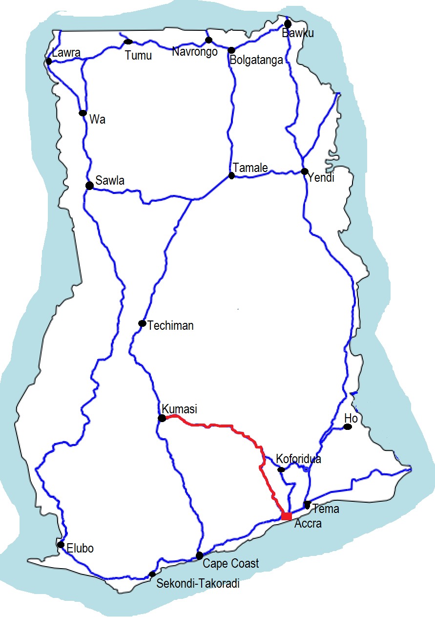 Ghana N6 highway route